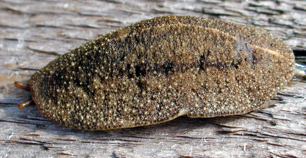 Contracted Veronicella cubensis